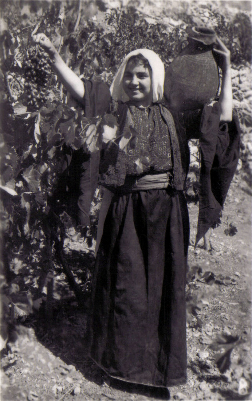 A Palestinian girl of Hebron in vineyard, 1947